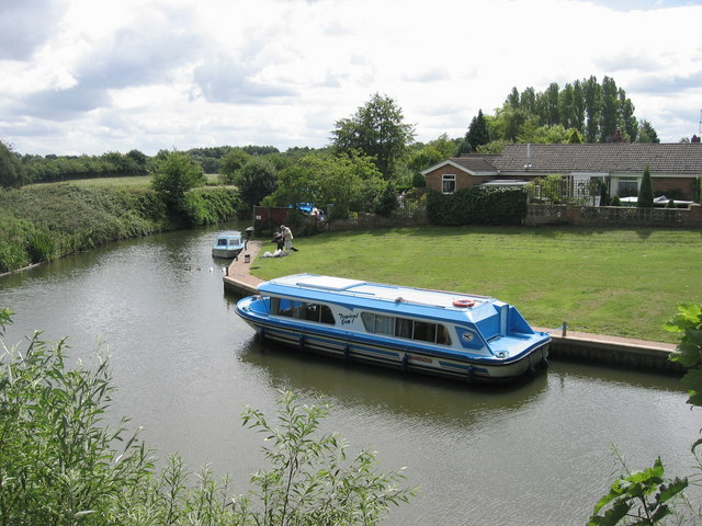 Dilham Staithe, The Norfolk Broads. The Dilham Staithe moorings are at the head of Tyler’s Cut on the River Ant, not far from the A149.